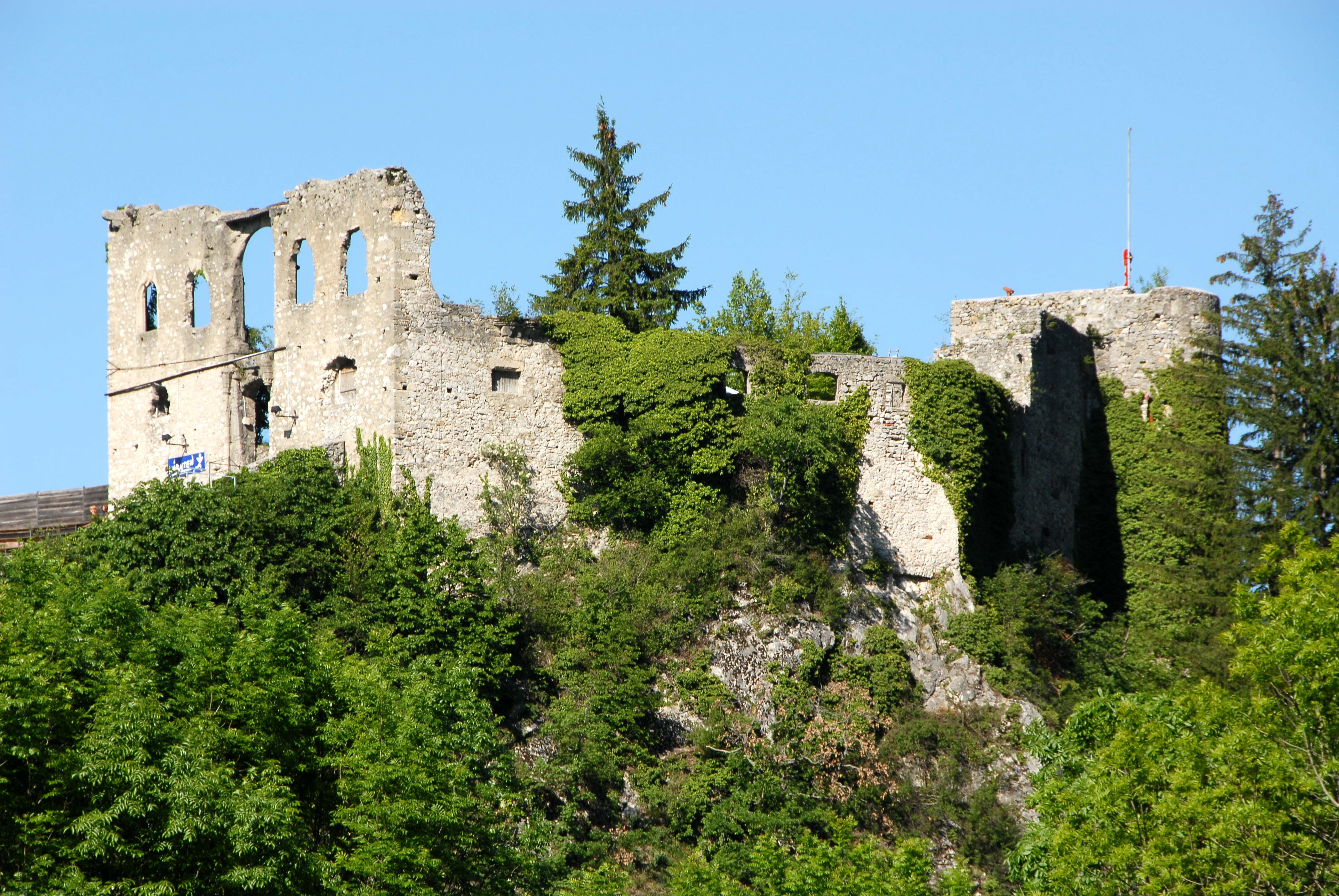 Castle ruin in Altfinkenstein #14, market town Finkenstein am Faaker See, district Villach Land, Carinthia, Austria